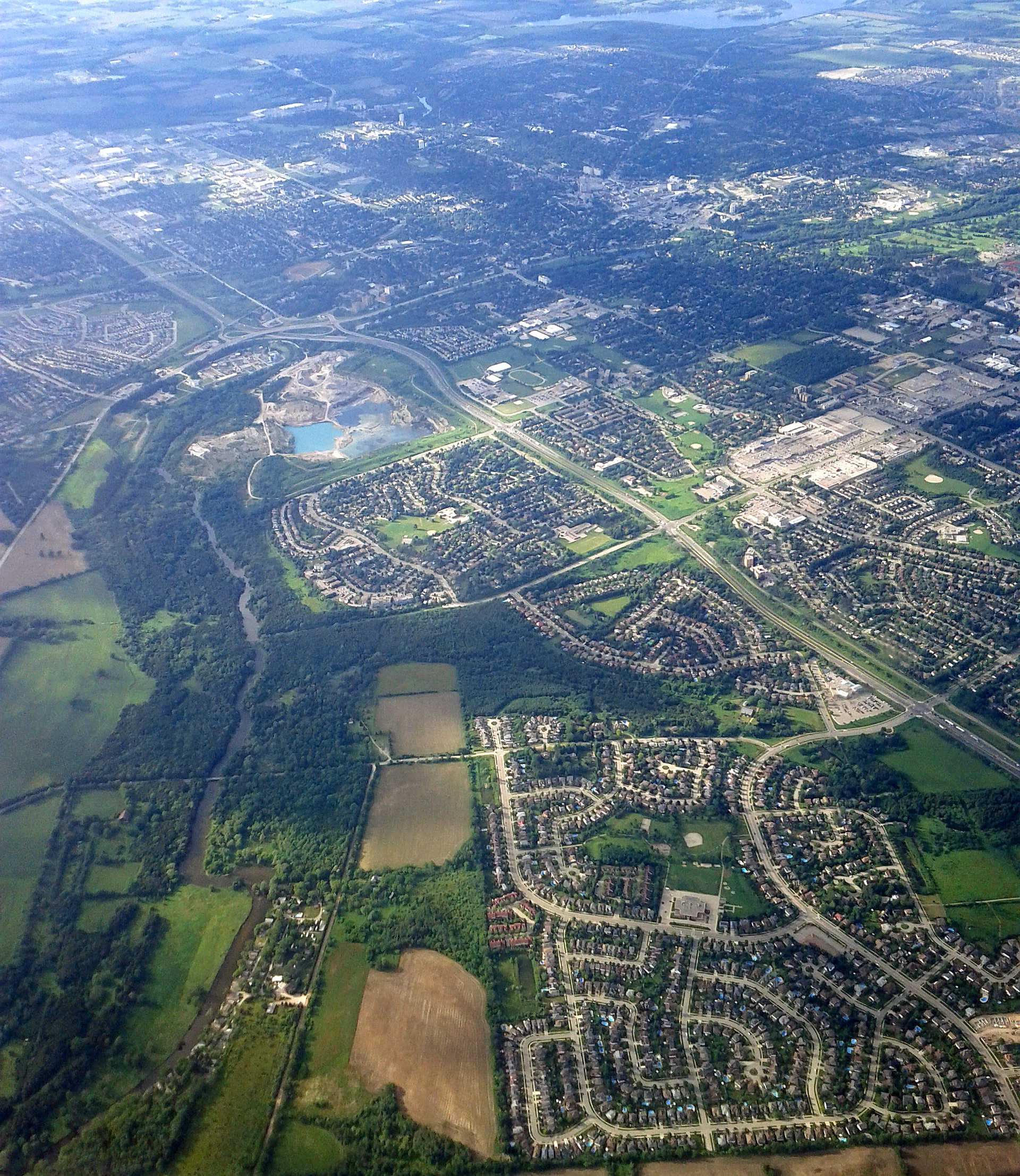 Halon Parkway from above in Guelph